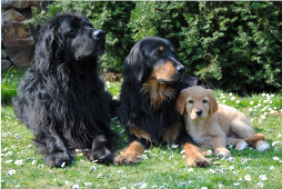 Photo of solid black, black and tan, and blond hovawart